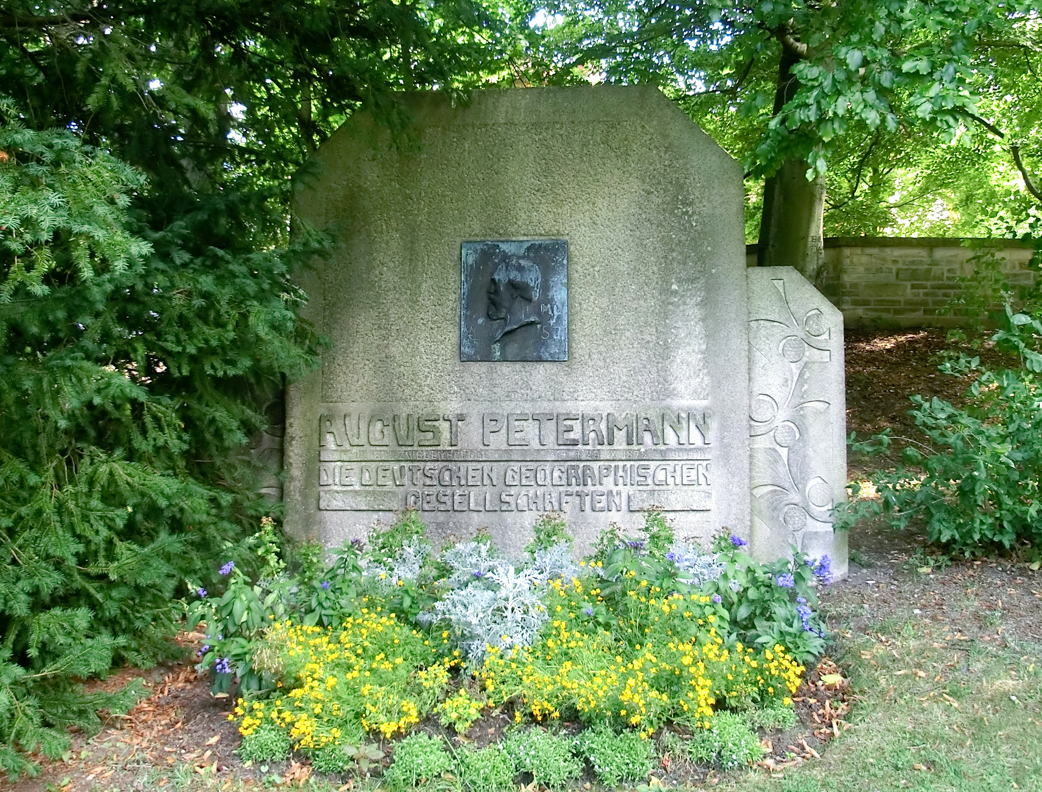 August Petermann memorial in Gotha by Max Hoene.